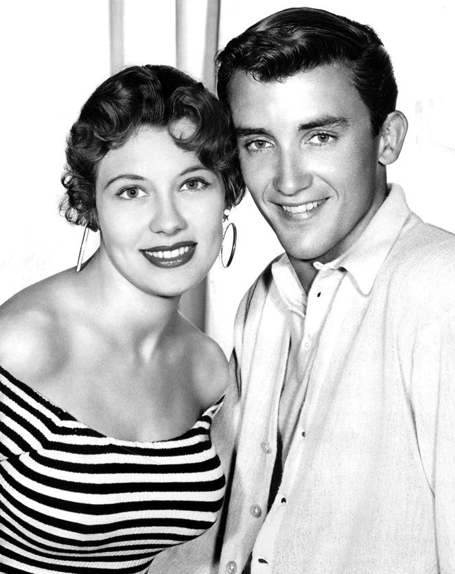 Publicity photo of Ronnie Burns with actress Jacqueline Baer from the Burns and Allen television show.